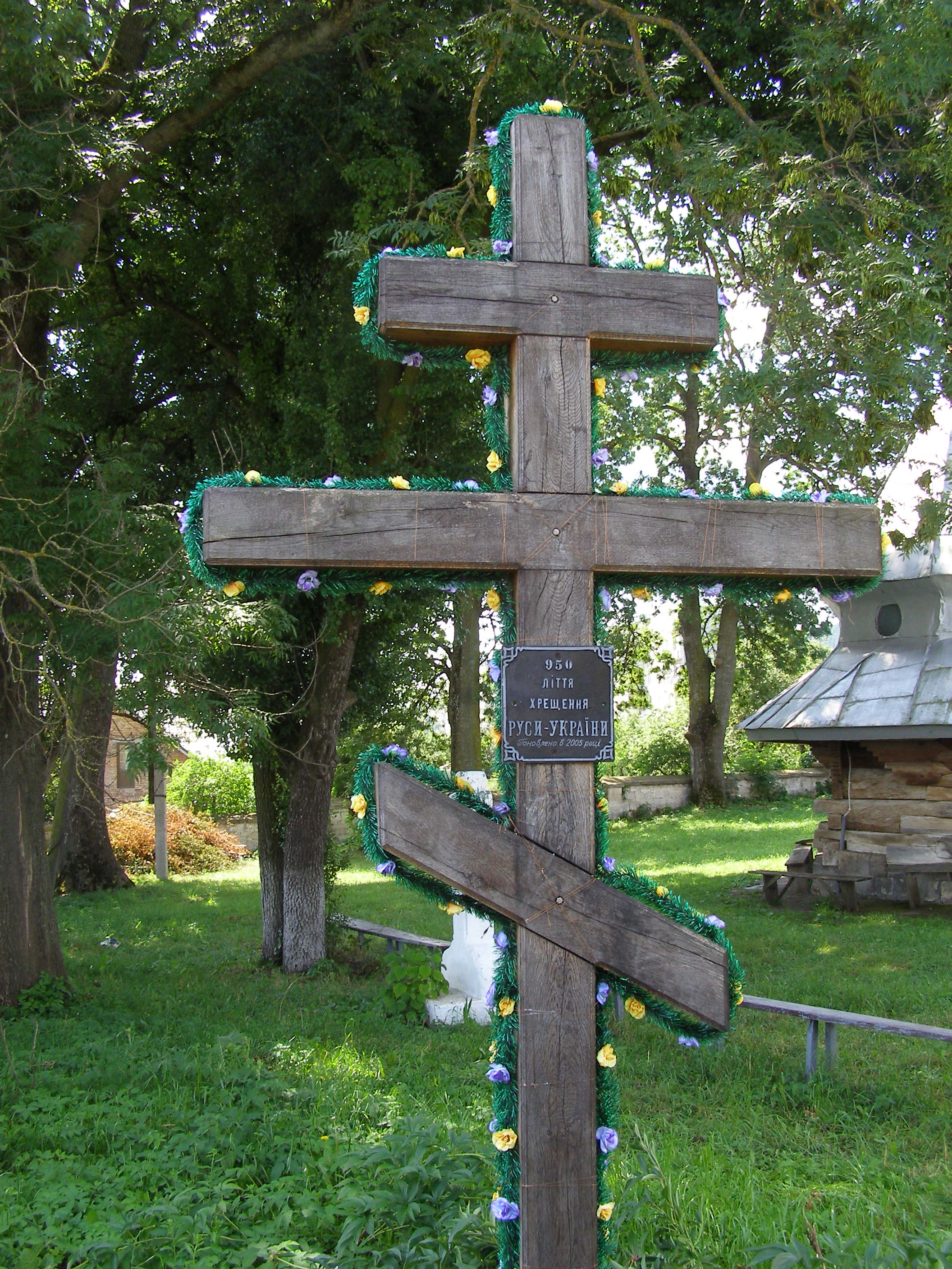 Orthodox cross in Berezhany, next to St Nicholas church.